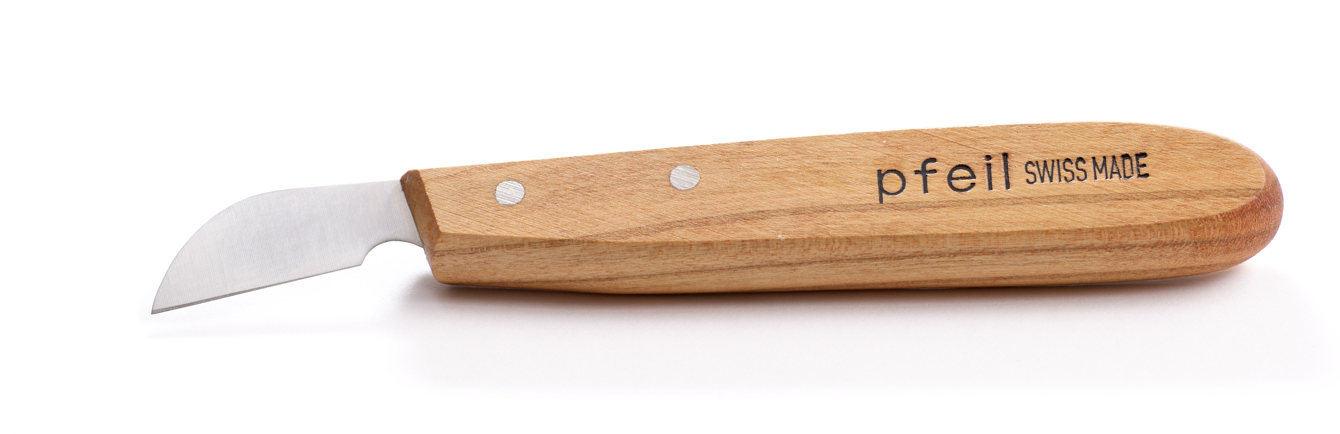 Chip carving tool made by the Swiss forge pfeil